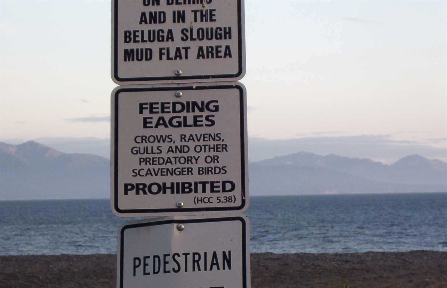 Sign in Homer Alaska relating to feeding of birds.